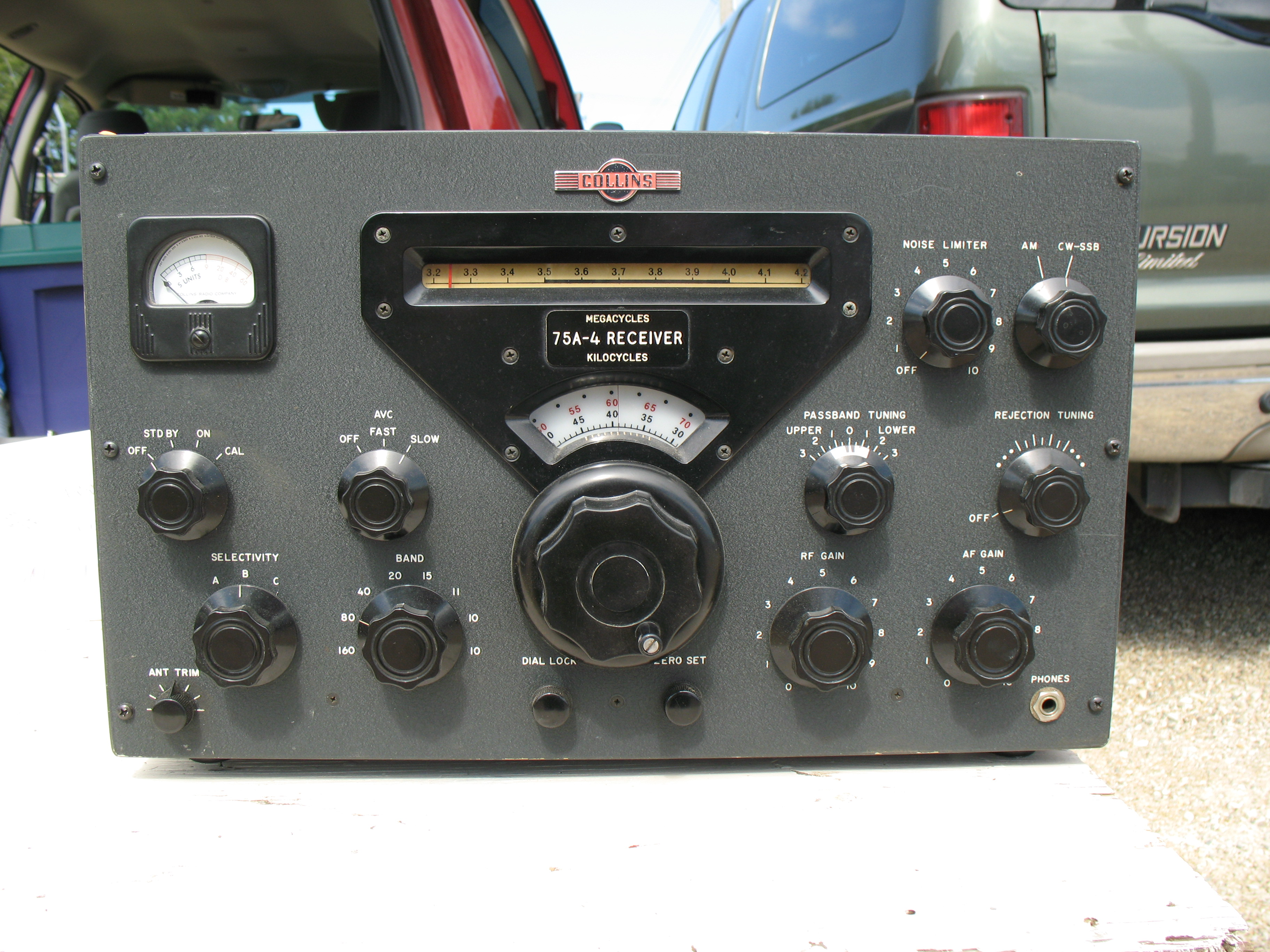 Collins 75A-4 Amateur Radio Receiver from 1950s. Seen at the Peoria Superfest. Sent via Verizon Wireless BlackBerry